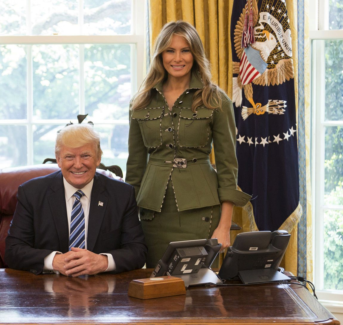 President Donald Trump and First Lady Melania Trump pose for photos, Thursday, April 27, 2017 in the Oval Office of the White House in Washington, D.C. (Official White House Photo by Shealah Craighead)